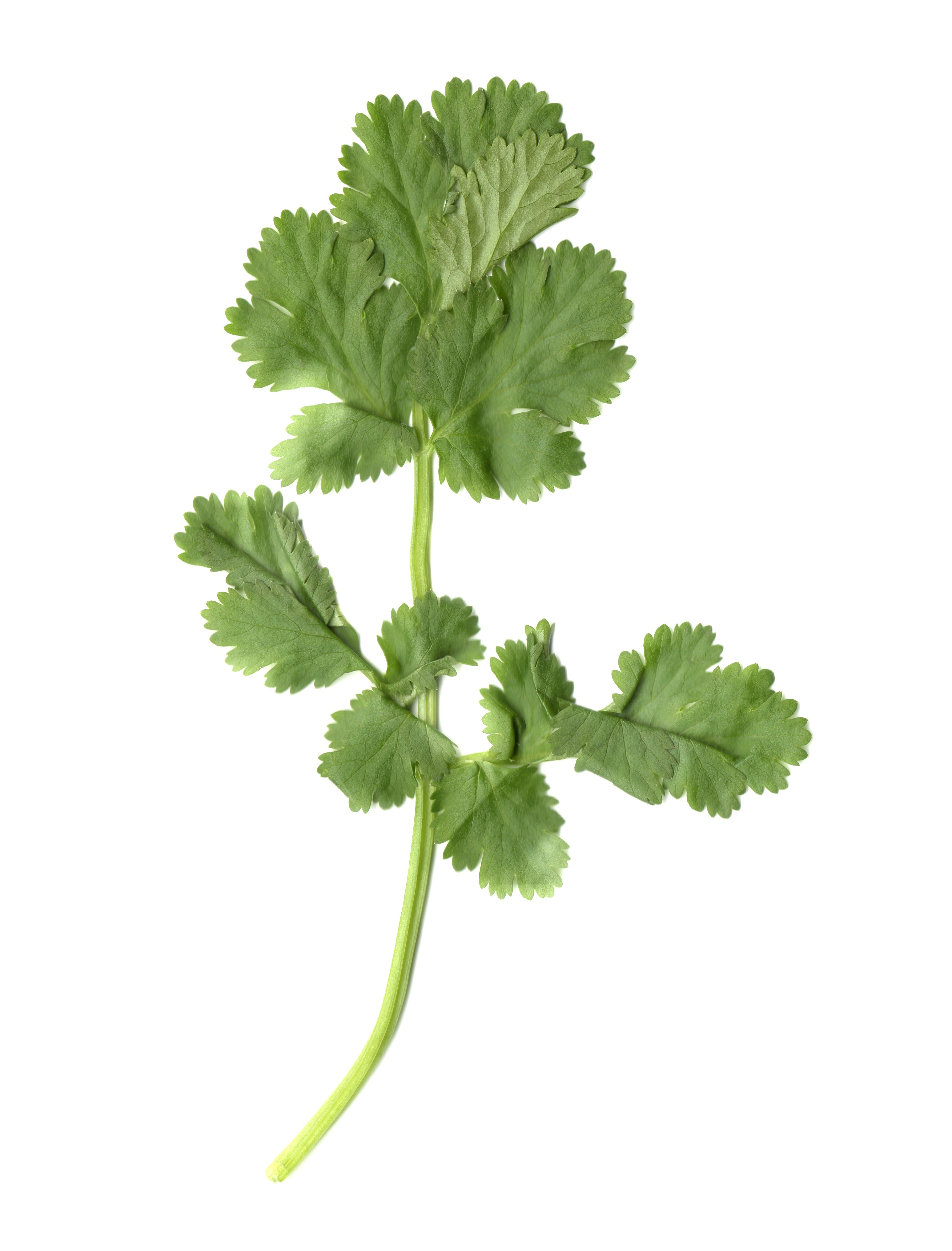 A close-up scan of a cilantro leaf.